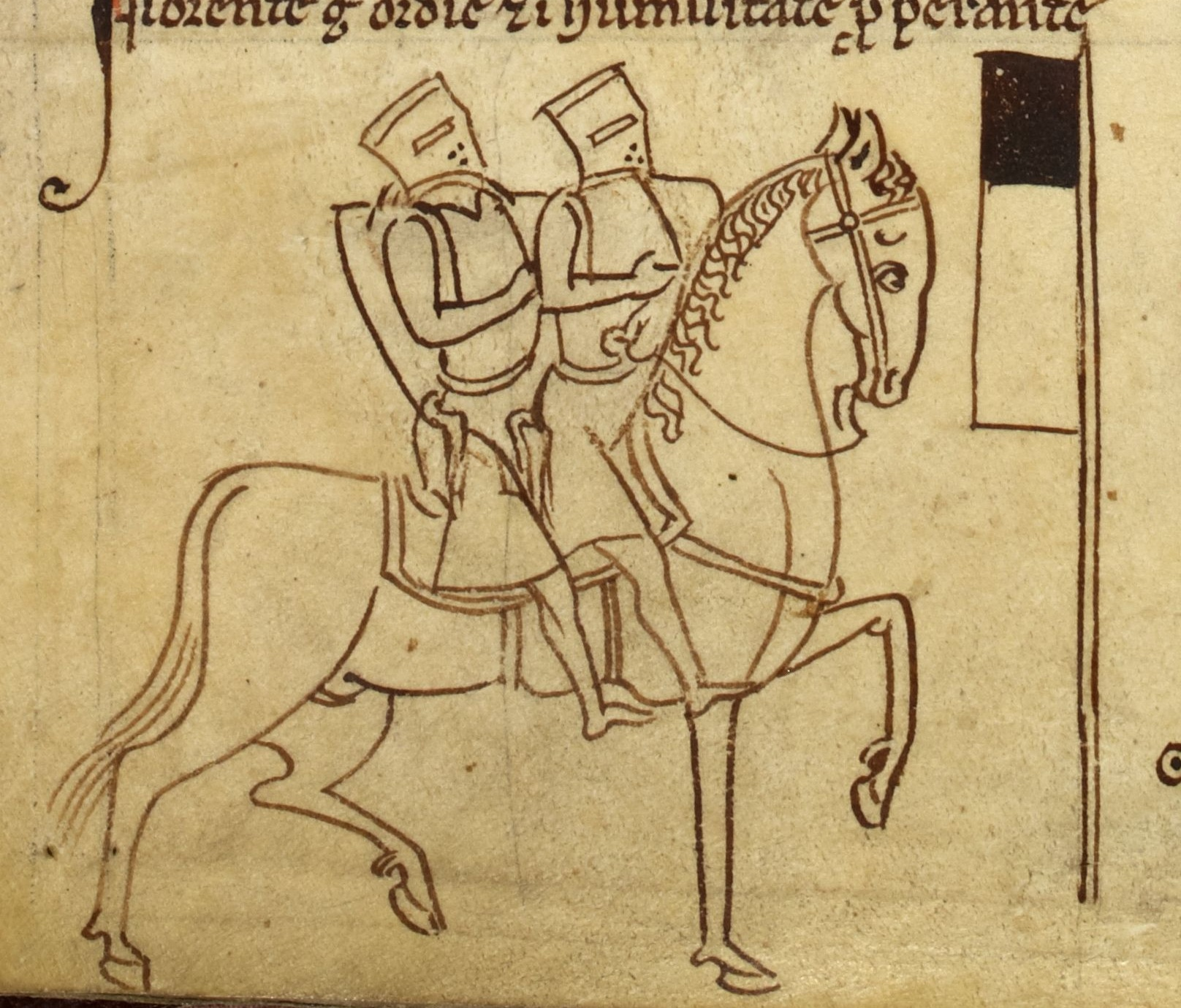 Drawing of two knights on a horse, the emblem of the Knights Templar, from the Chronica Majora of Matthew Paris.